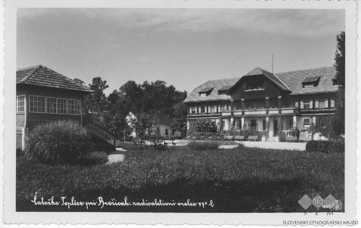 Postcard of Čatež spa. The inscription reads: "Radioactive spring"